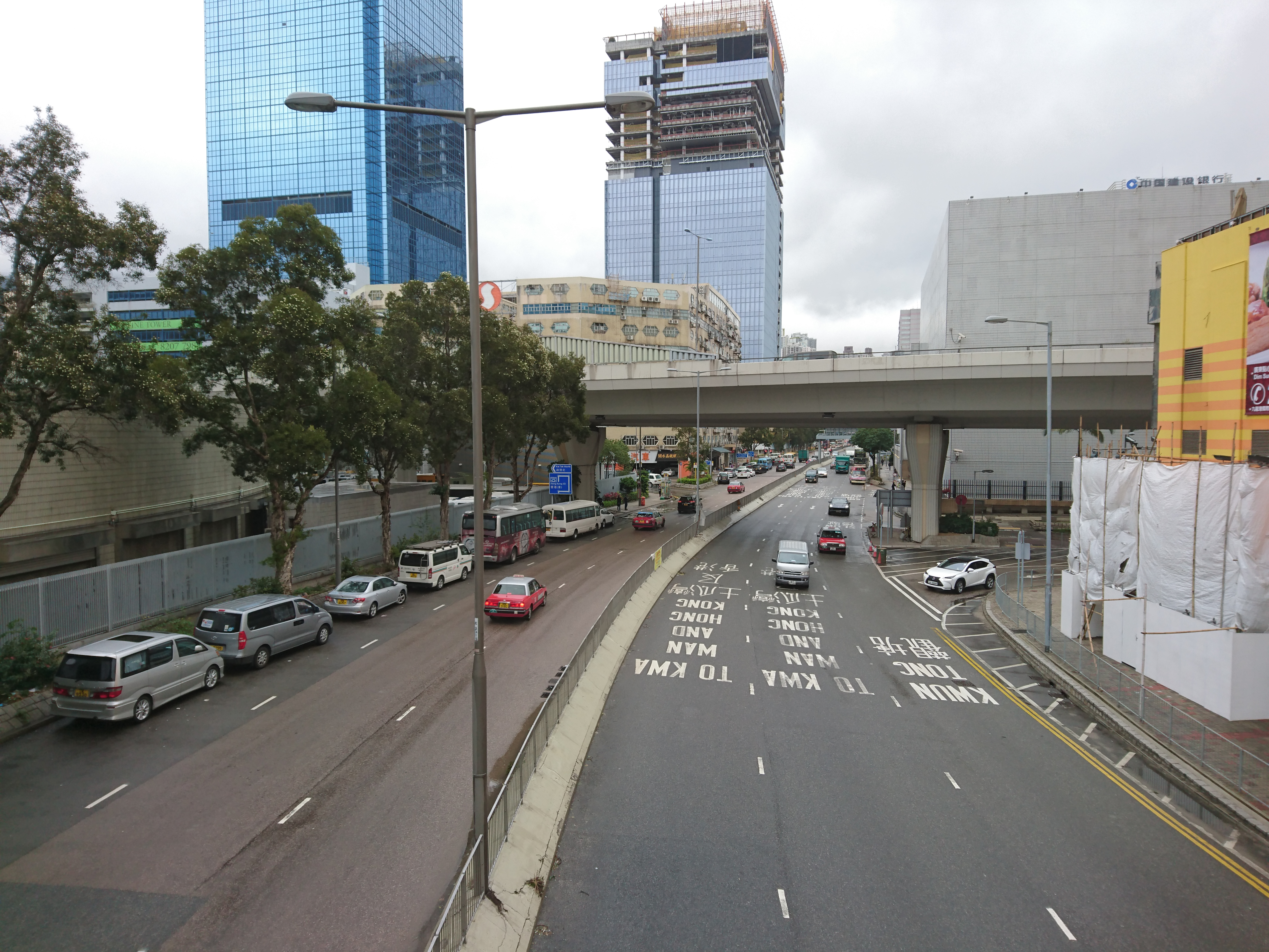 Kai Cheung Road towards Trademart Drive